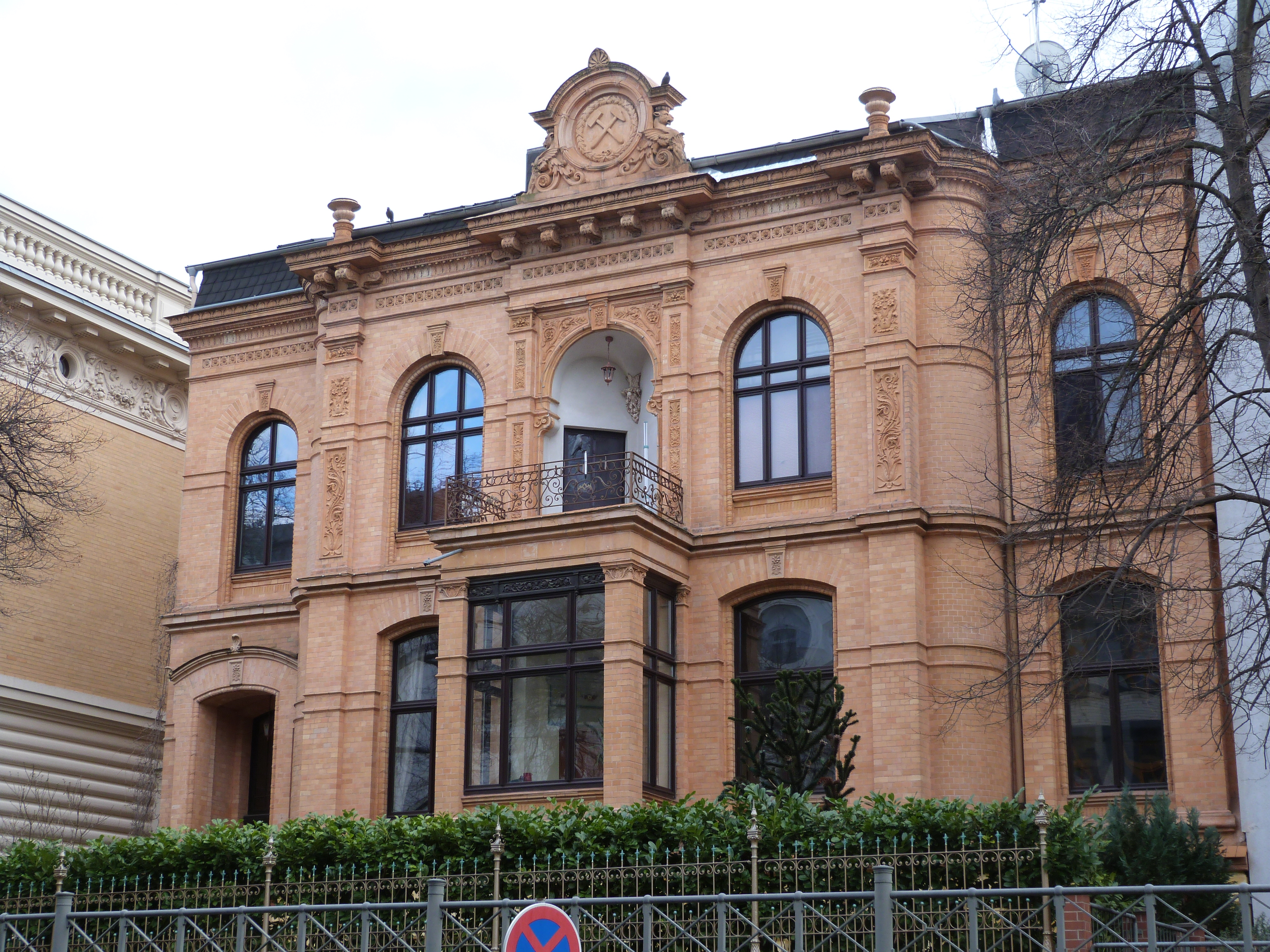 Villa Gruhl in Willy-Brandt-Strasse 66, Halle (Saale)